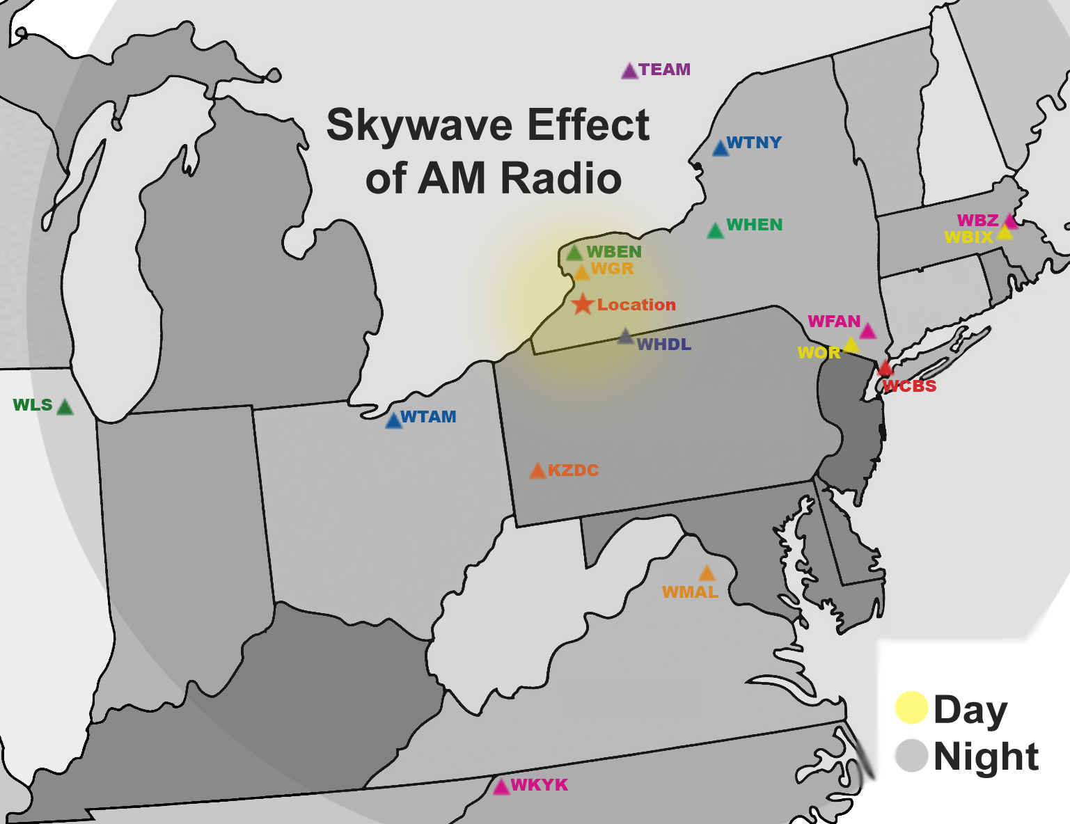 The effect of skywave travel of AM radio stations. Test done at 3:00pm EST (for day) and 2:00am EST (for night). A multiband Rhapsody radio was used for the test w/o external antenna. Test location: Buffalo NY